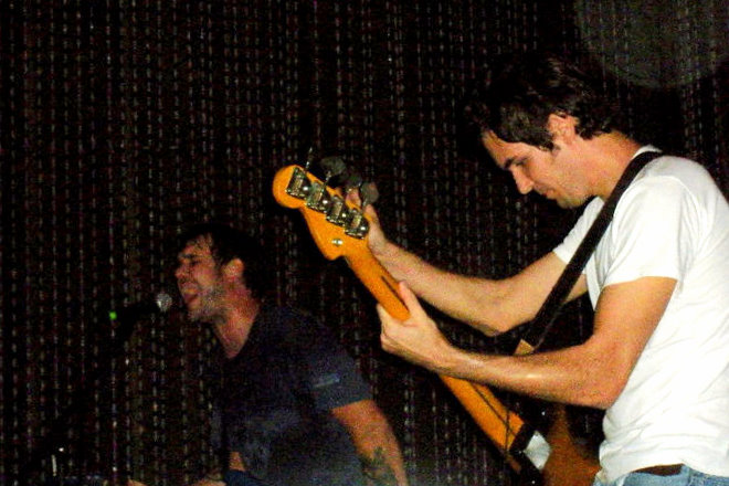 Echo Orbiter performing live at Johnny Brenda's on September 18, 2010